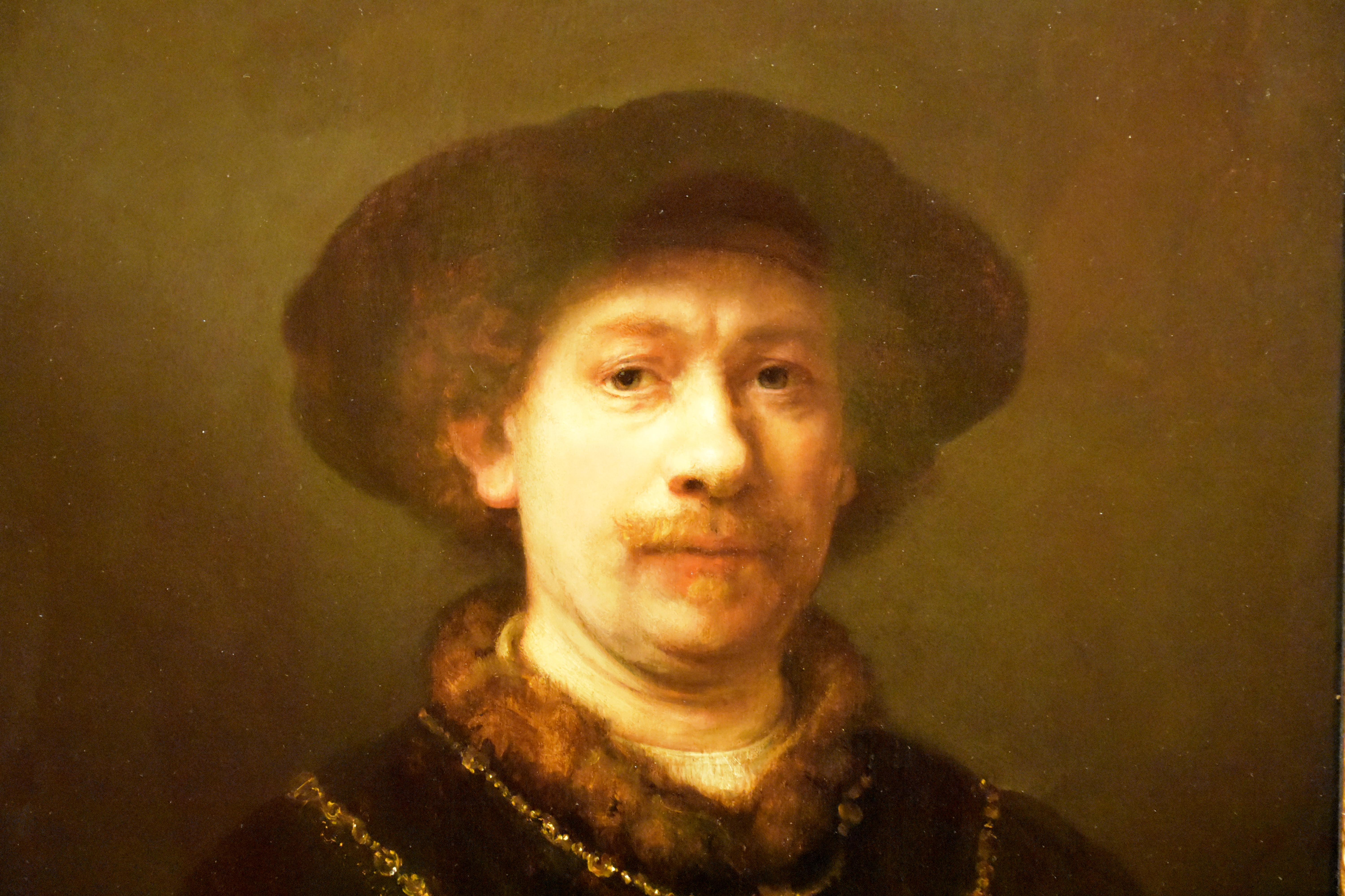 Rembrandt, Self-Portrait Wearing a Hat and Two Chains, 1642-43 (3)